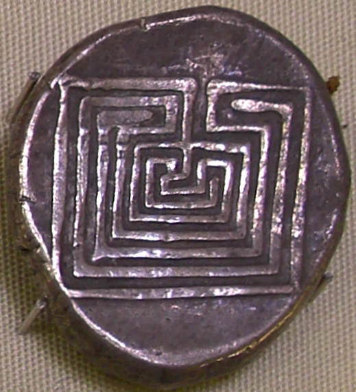 Silver coin from Knossos representing the labyrinth, 400 BC.